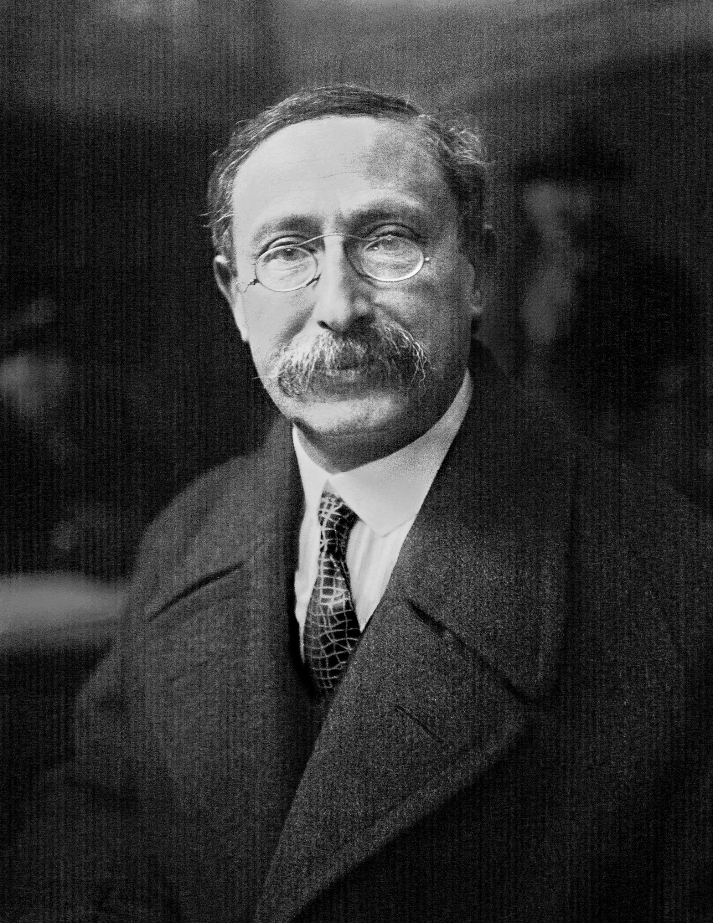 Léon Blum (1872-1950) during the socialist congress of 1927. Picture taken in 1927: glass negative, restored and cropped print.